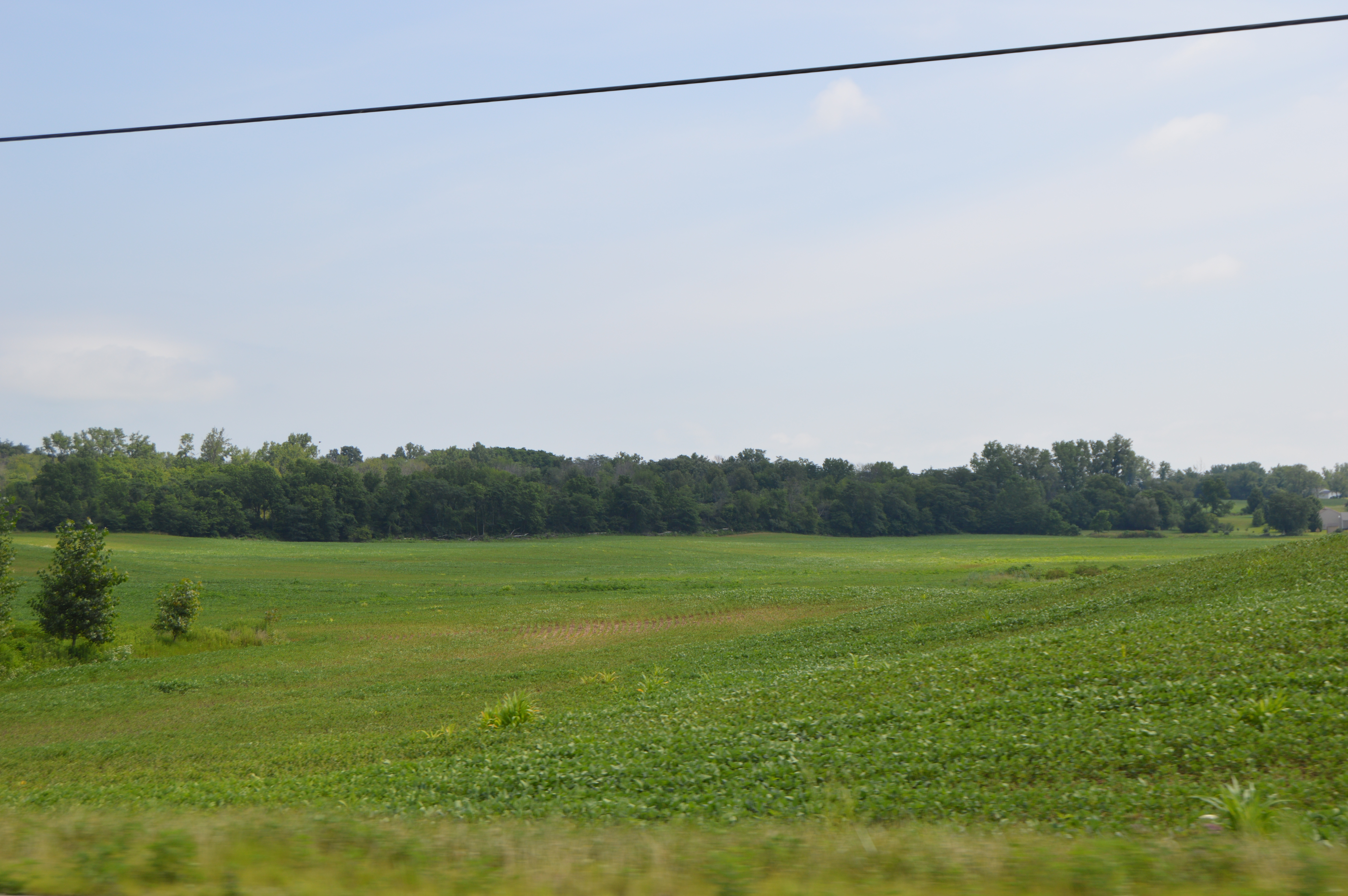 Fields in southwestern Goshen Township, Champaign County, Ohio, United States, looking northeast from State Route 56 immediately north of the Mechanicsburg Catawba Road intersection.